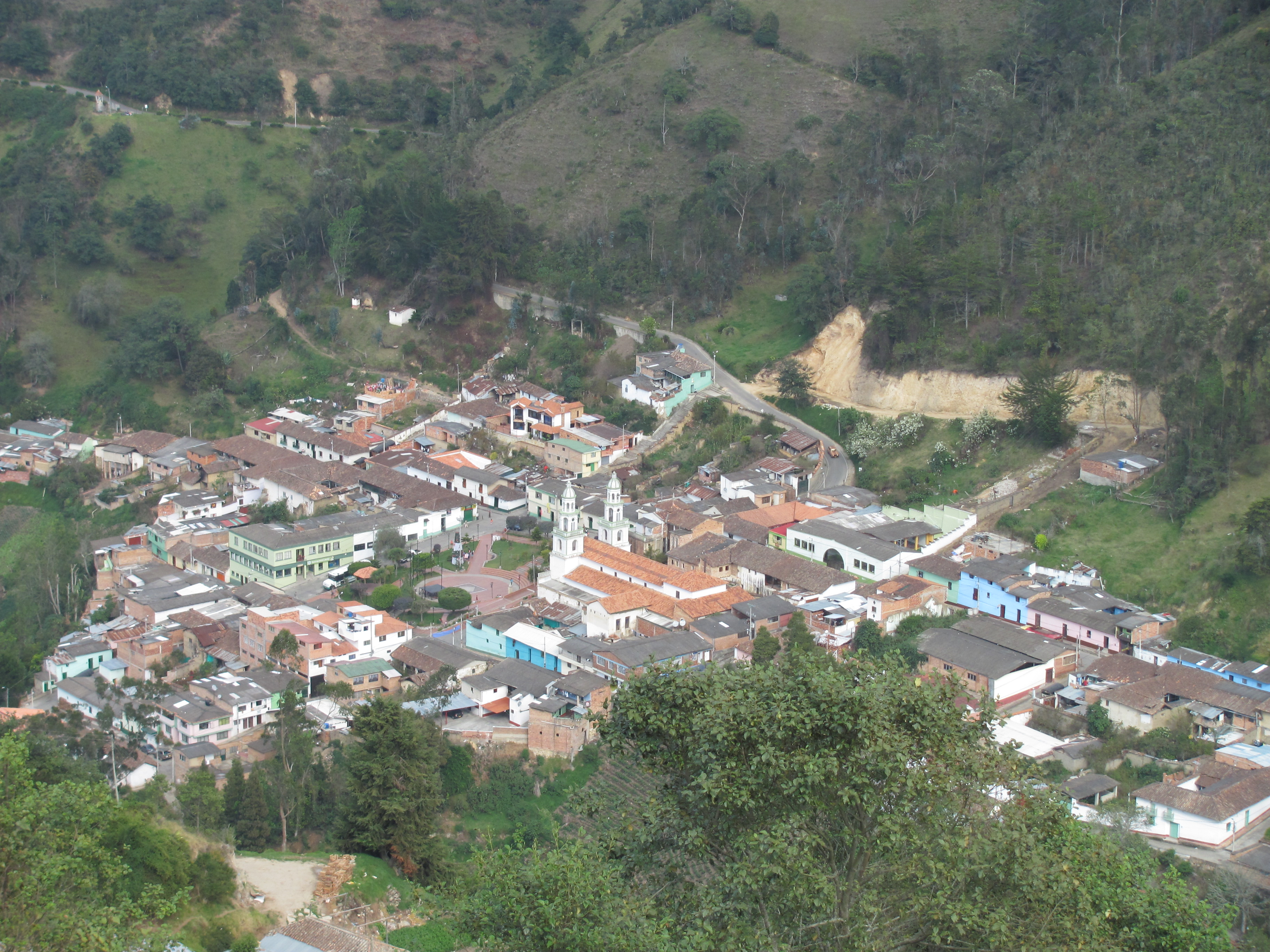 Otra Vista del Municipio